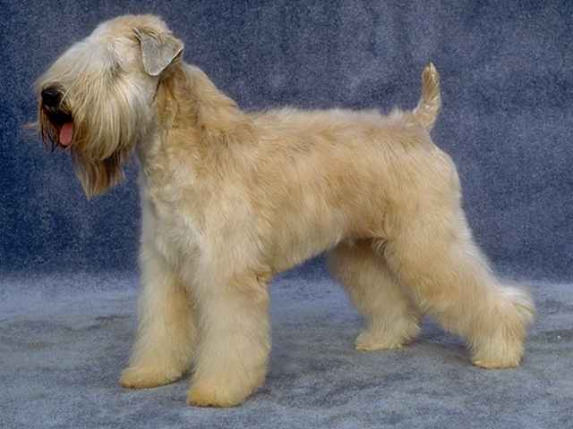 My friends Wheaten. I have her permission to post this.